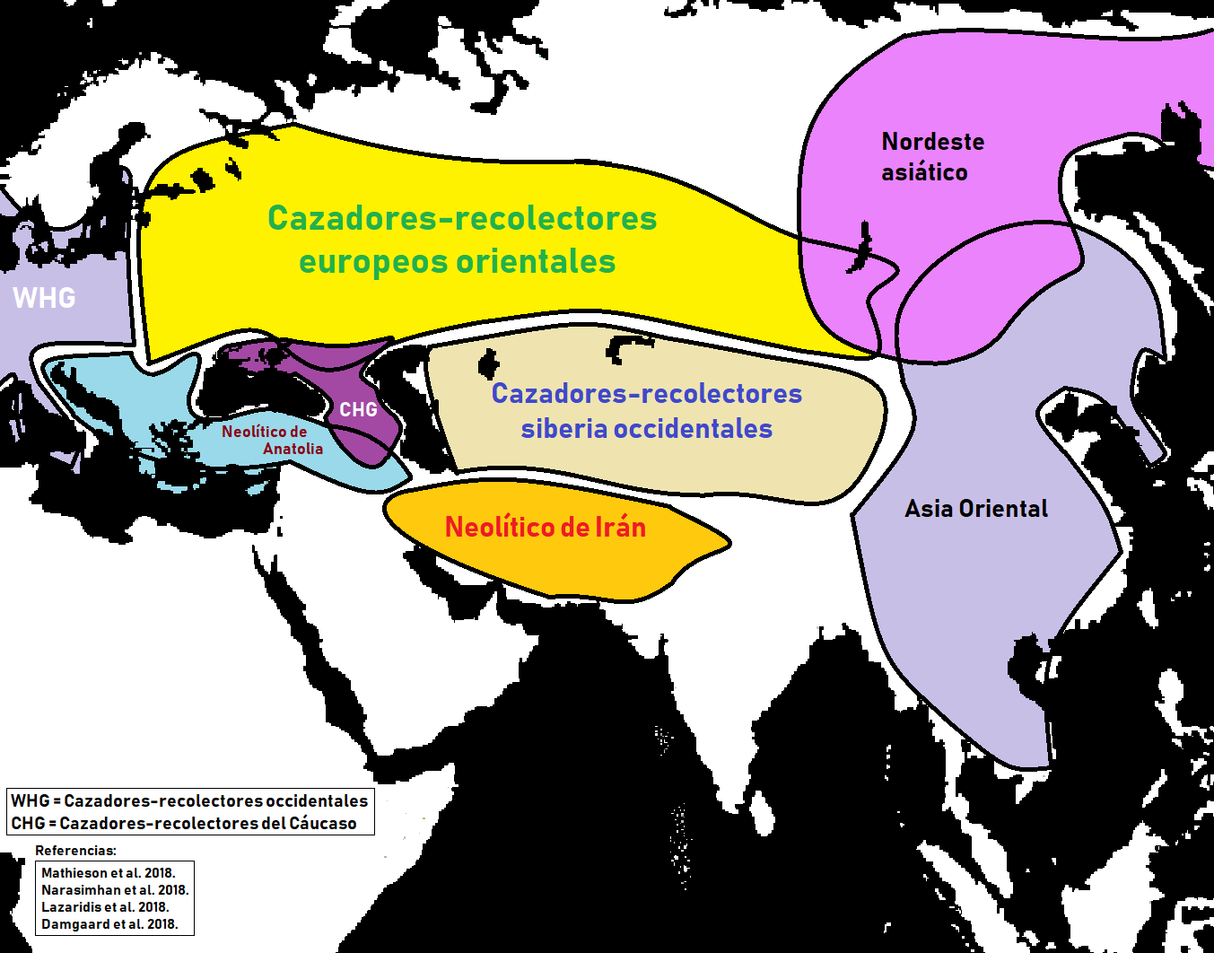 Shematic map of Eneolithic expansions. Source: Image:BlankEurasia.png